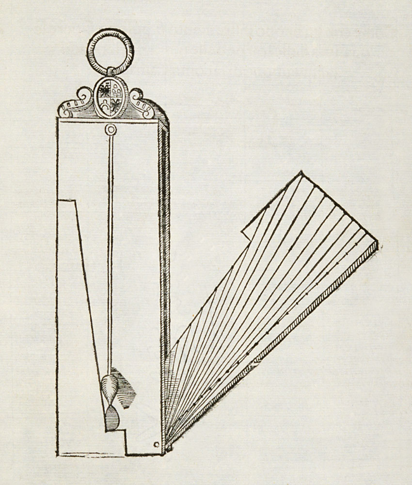 Description